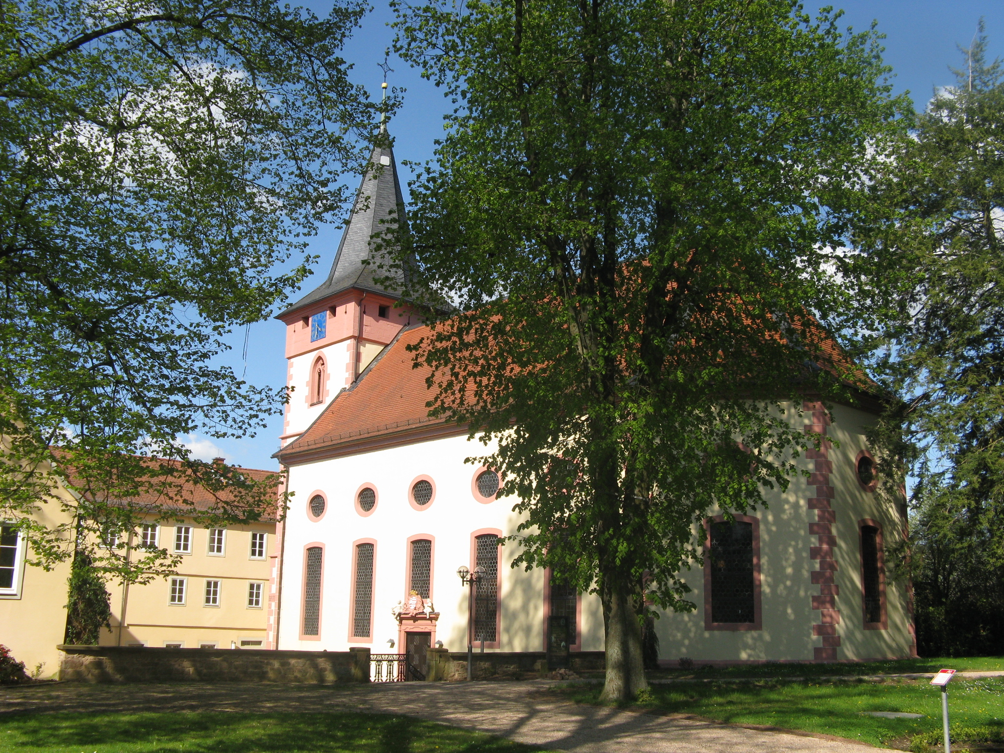 Protestant Church Bad König